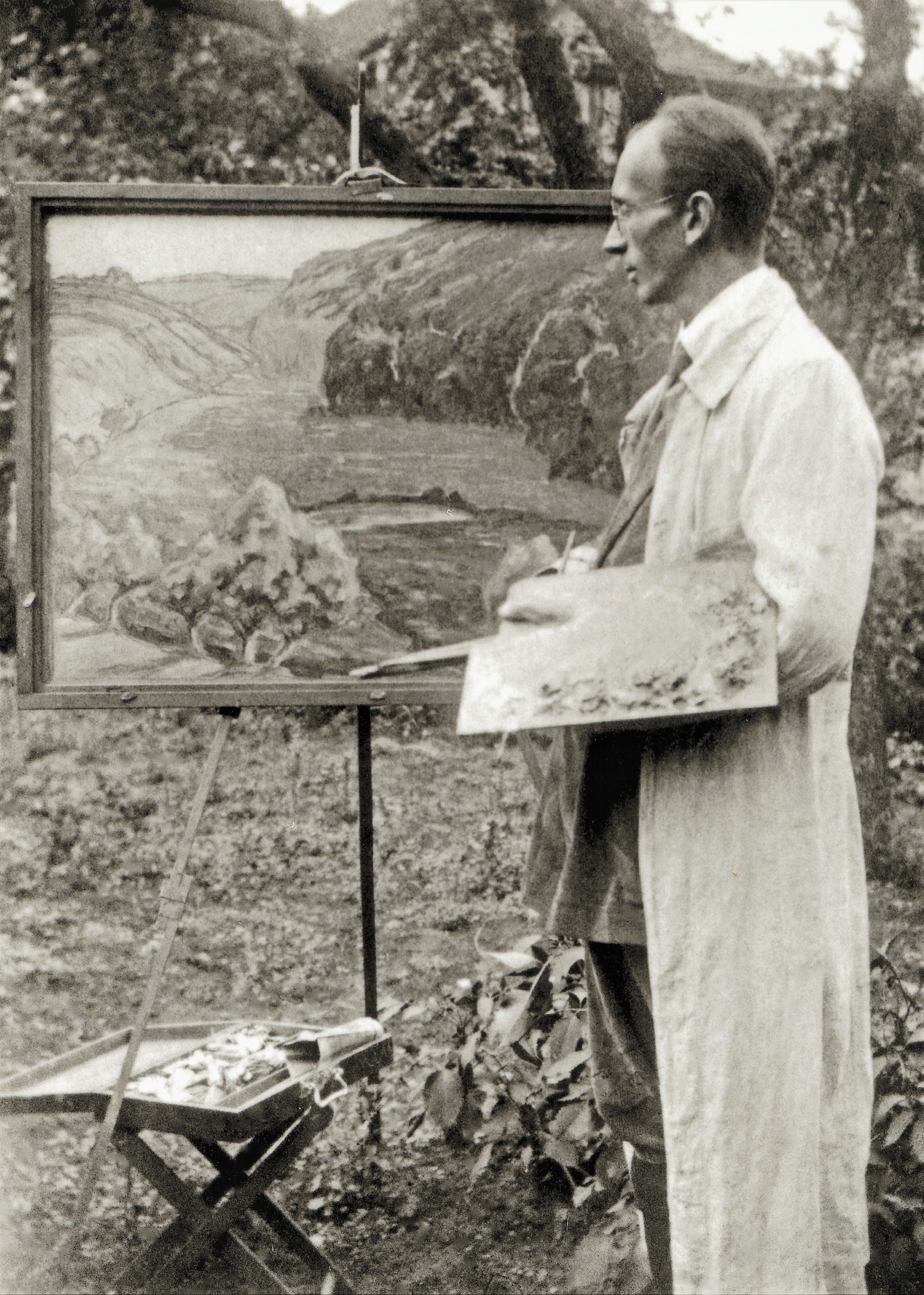 Walter Gotsmann (1891 – 1961) was a German painter based in Neustrelitz, known for his paintings and sketches of local pastoral scenes.